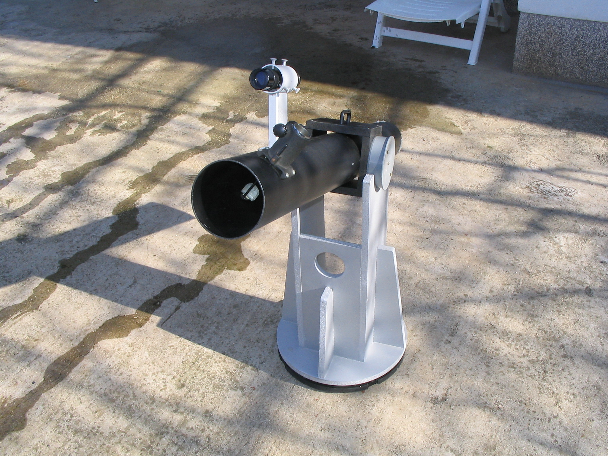 Home made dobsonian d=114mm, f=910mm, made for Nebo na poklon (Presenting the skies) project